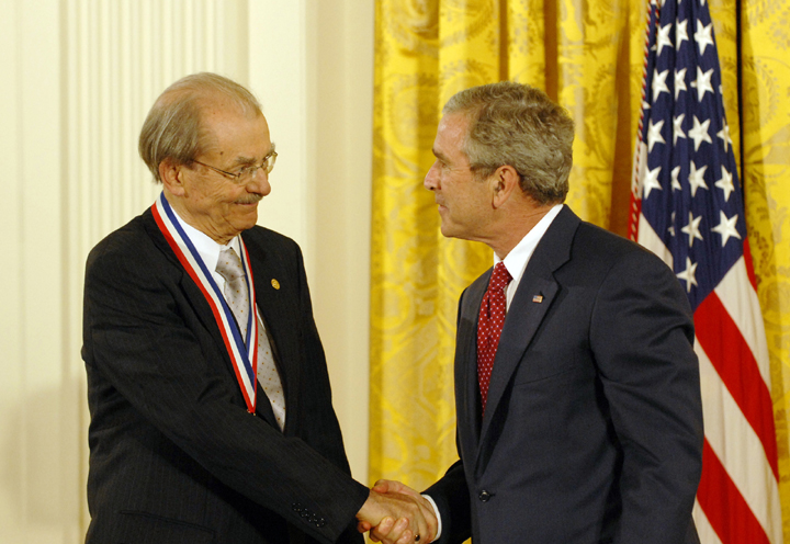 Jan. D. Achenbach receiving the 2005 Medal of Science from president George W. Bush, on July 27, 2007